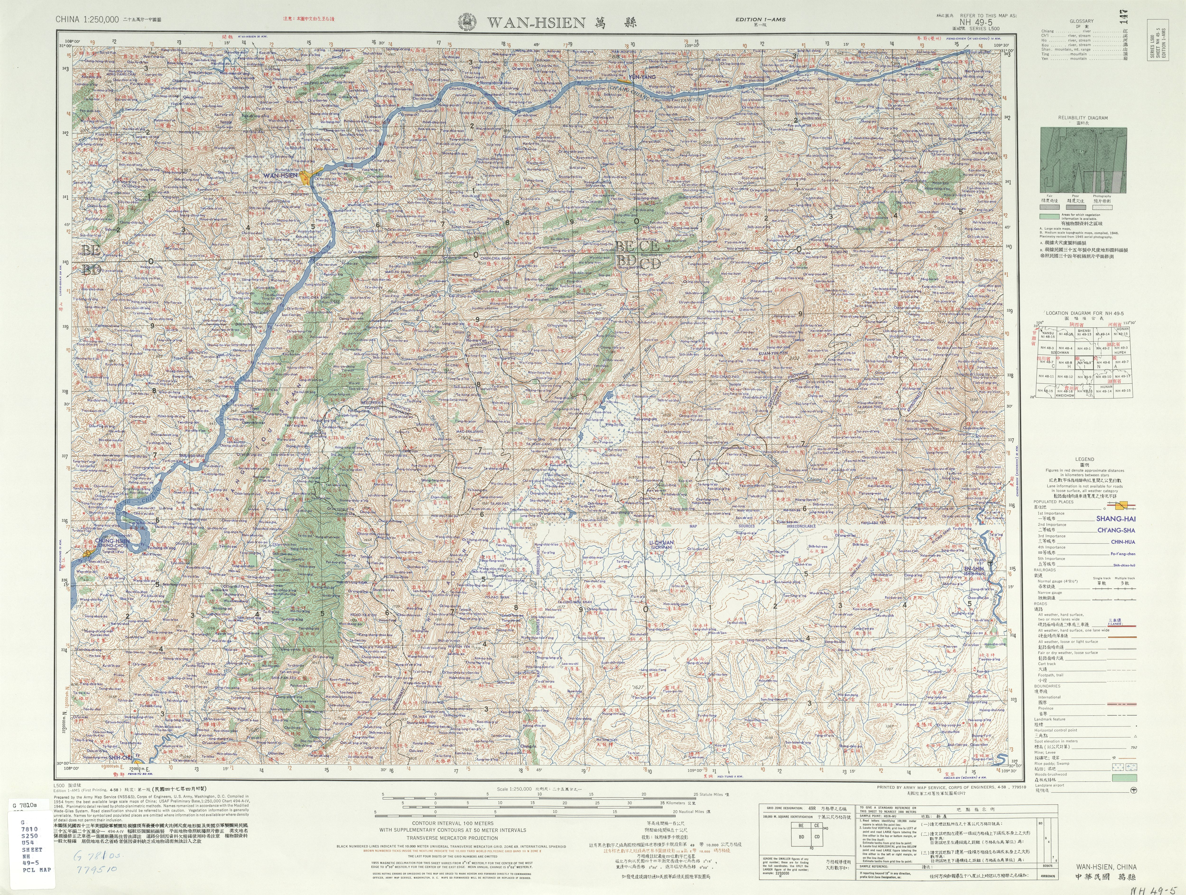 China AMS Topographic Maps